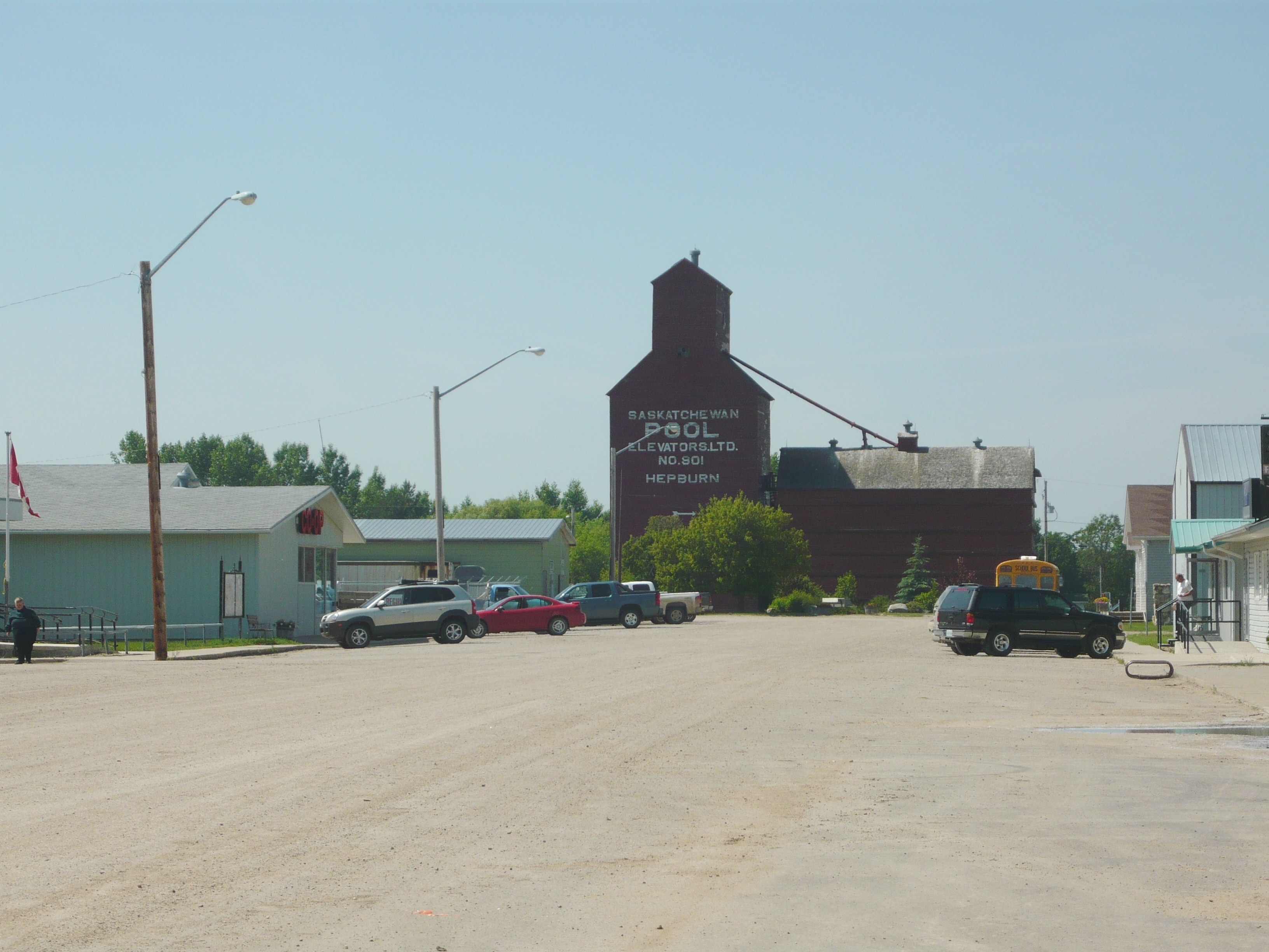 Main Street in Hepburn, Saskatchewan, Canada. Looking northwestward toward the grain elevator from the intersection of Main Street and 1st Street.